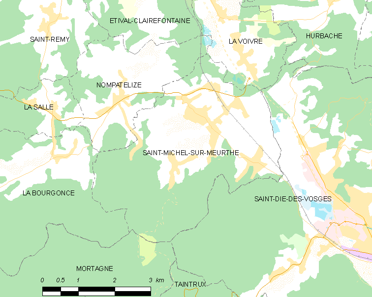 Map of French municipality Saint-Michel-sur-Meurthe